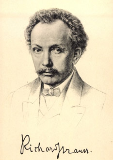 Post card of Strauss from around 1900 or a few years before.